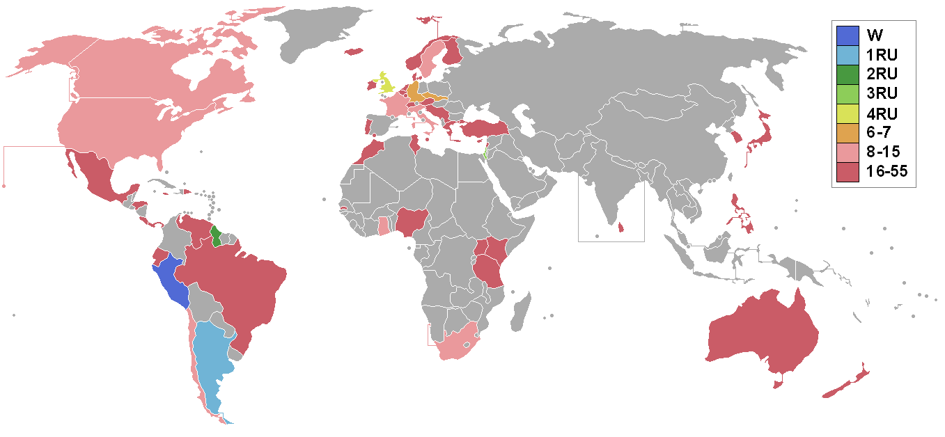 results map